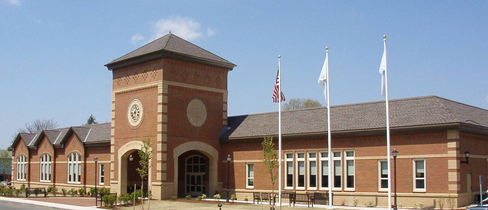 Image of Chicopee Public Library